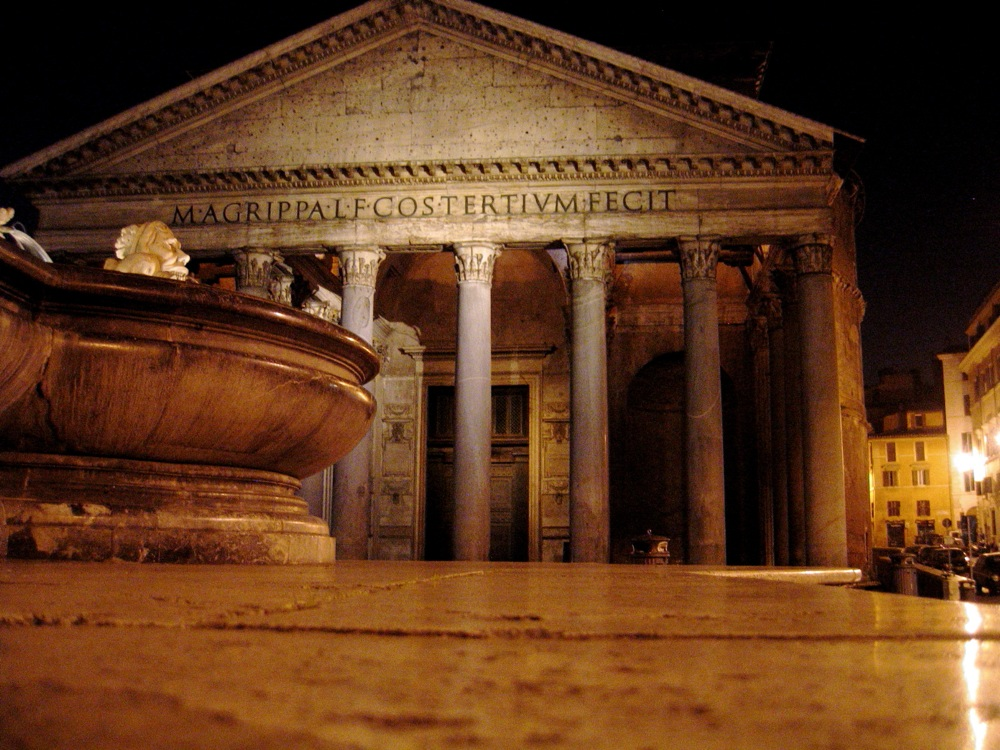 Pantheon by night, Roma, Italy. EDR 103378